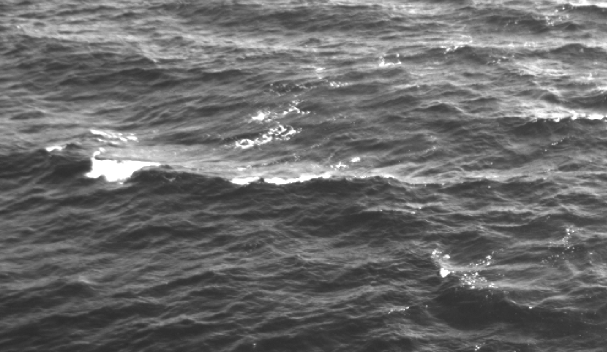 whitecap, ocean waves, breaking